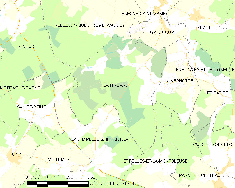 Map of French municipality